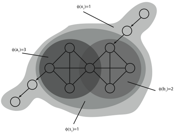 Schematic diagram how to decompose systems into overlapping complexes according to Tononi's Information Integration Theory.